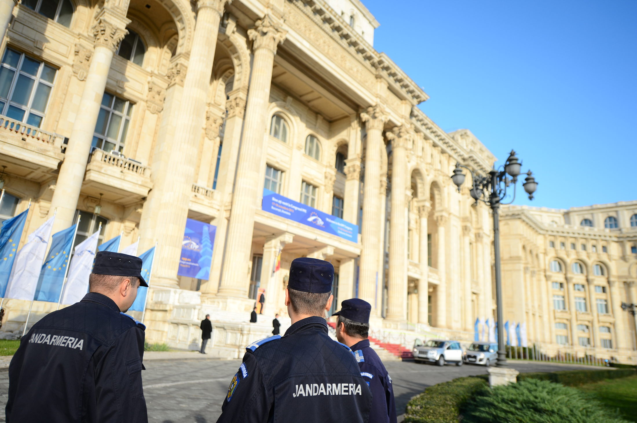 EPP_Congress_1841